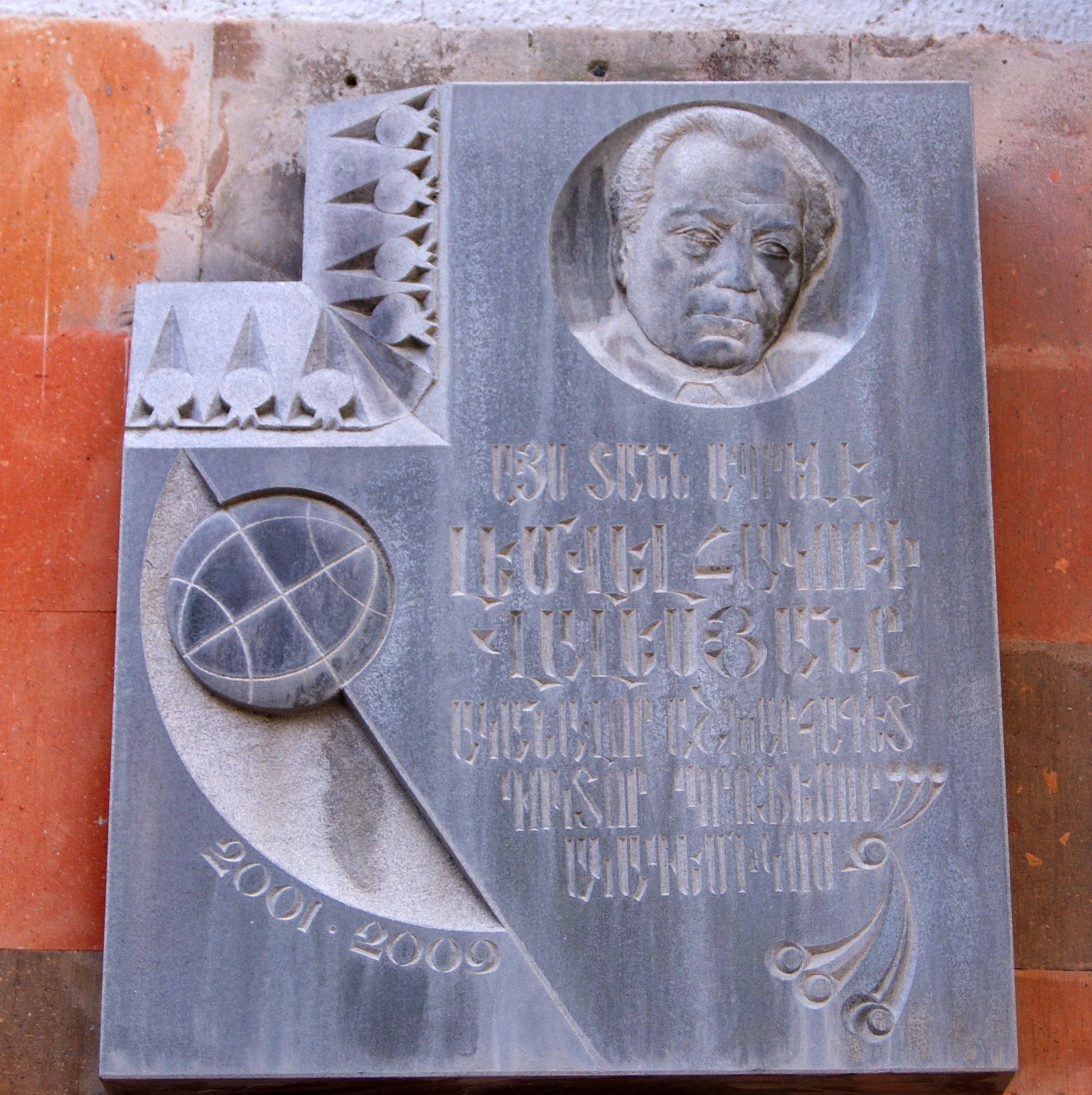 Lemvel Valesyan's plaque in Yerevan